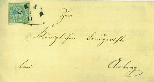 Bavaria first day cover 01.11.1849